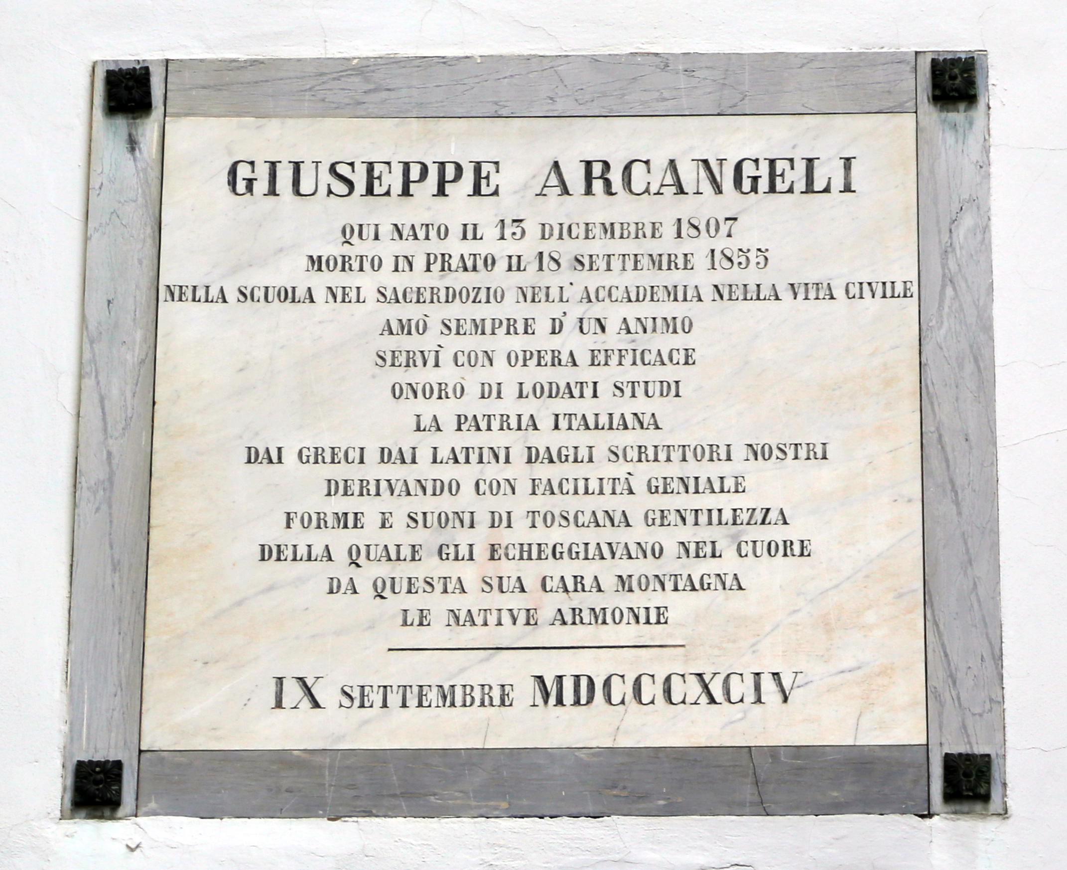 San Marcello Pistoiese